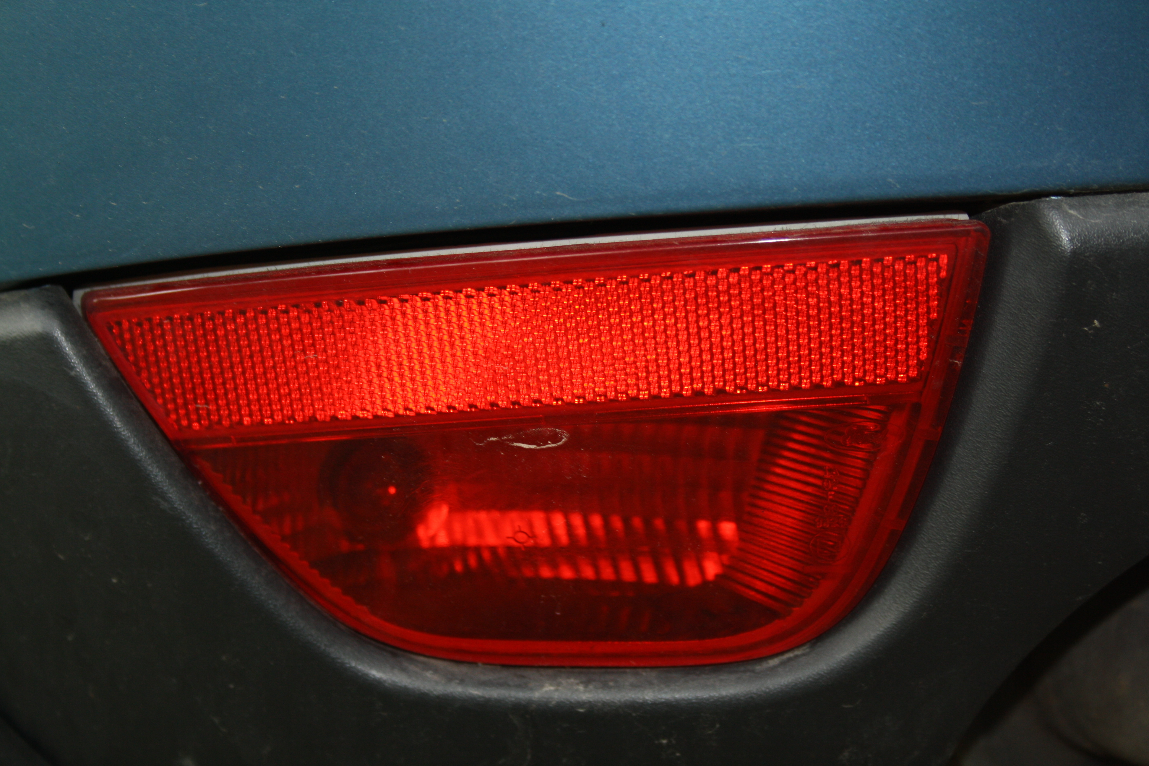 Rear fog light of Ford Focus Mk I.